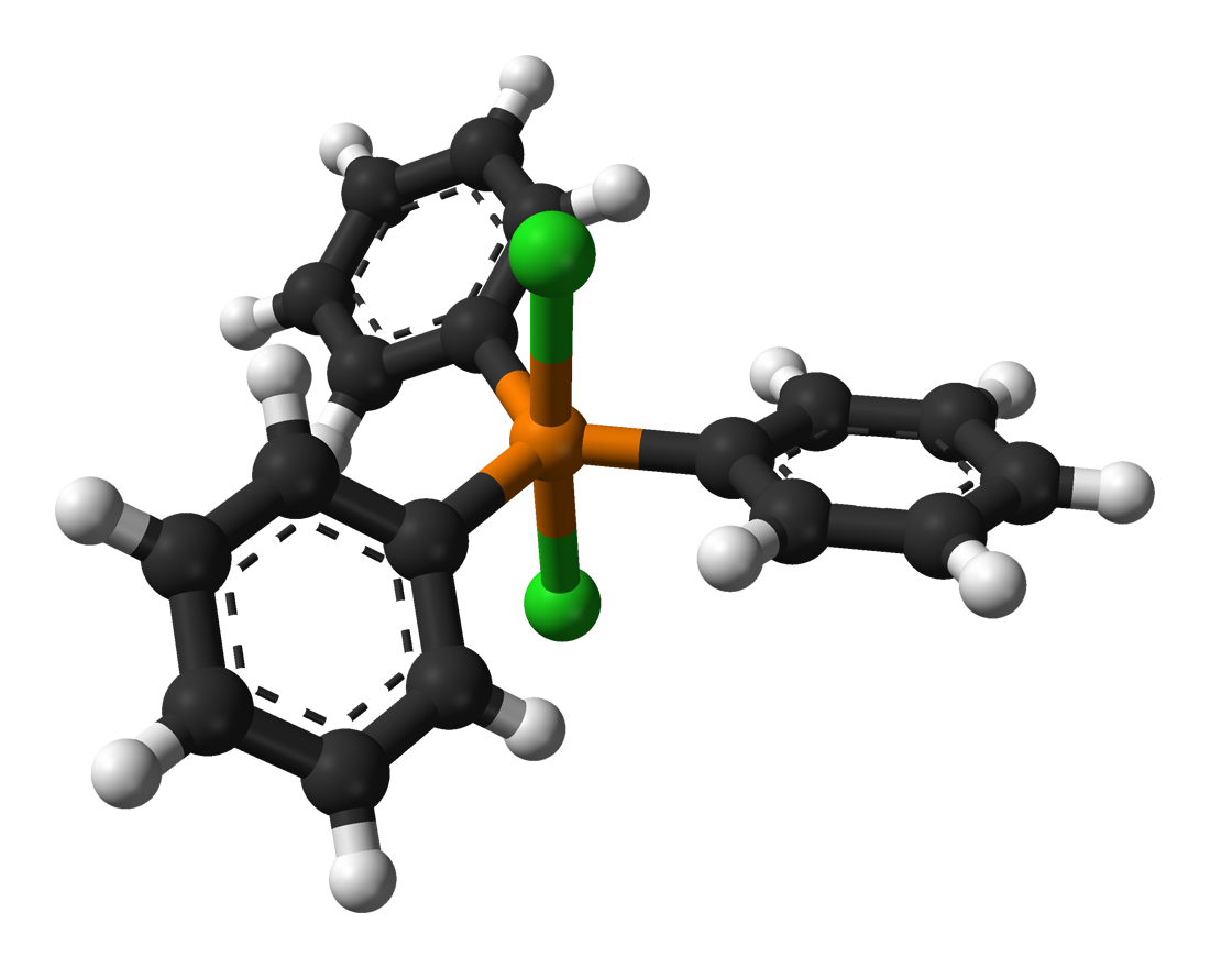 Ball-and-stick model of the triphenylphosphine dichloride molecule. X-ray crystallographic data from Chem. Commun., 1998, 921 - 922. Model constructed in CrystalMaker 8.1. Image generated in Accelrys DS Visualizer.